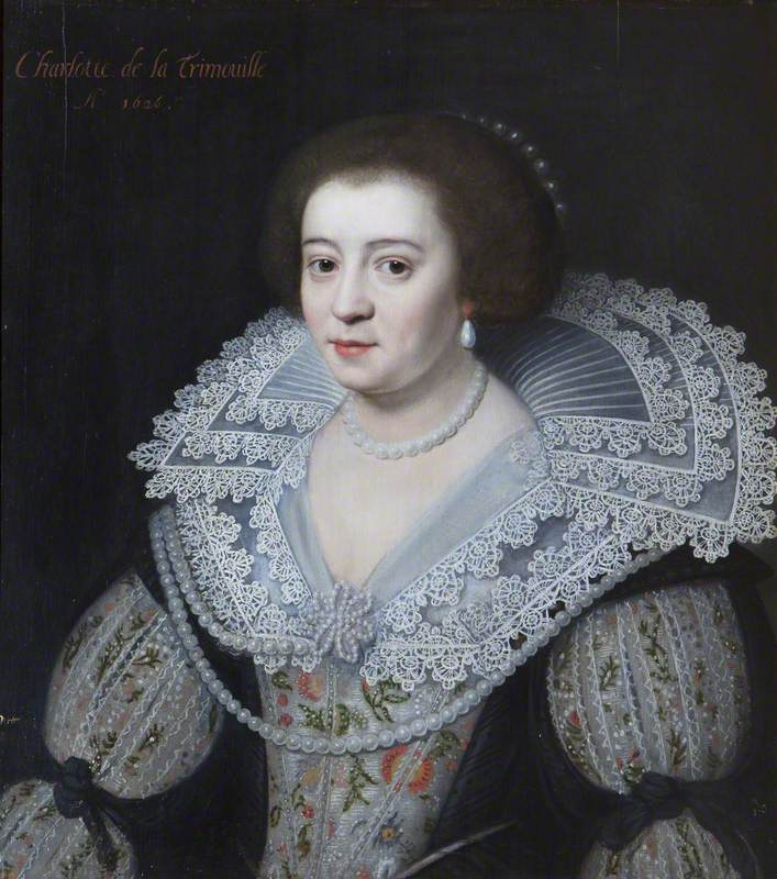 (c) National Trust, Blickling Hall; Supplied by The Public Catalogue Foundation